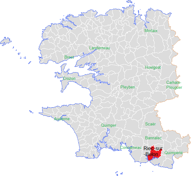 placement Riec-sur-Belon in Finistère